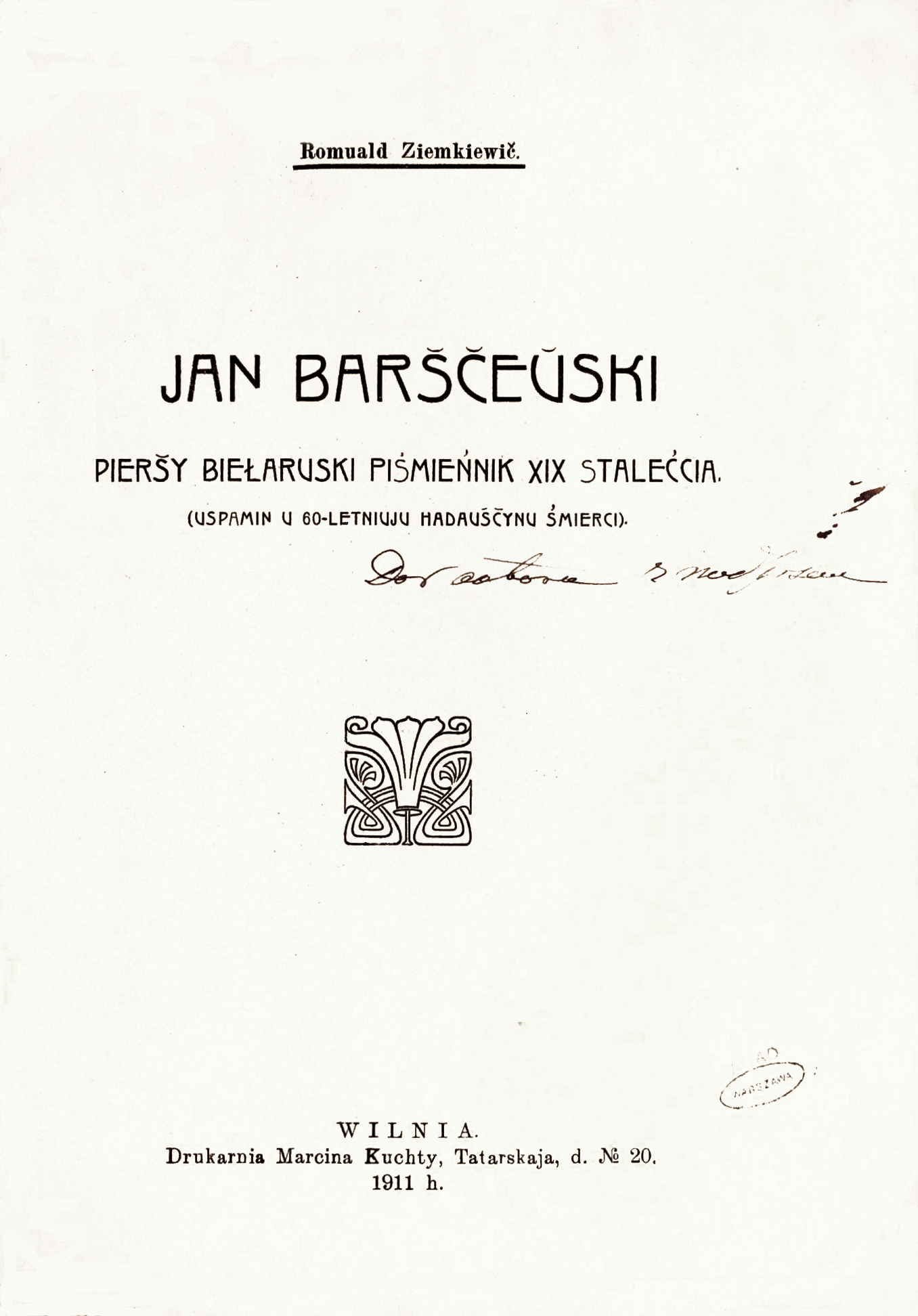 Book about Belarusian and Polish writer Jan Barszczewski (Jan Barščeŭski) written by Romuald Ziemkiewicz (Romuald Ziemkievič), published in Vilnius, 1911. From A. Jelski's collection.